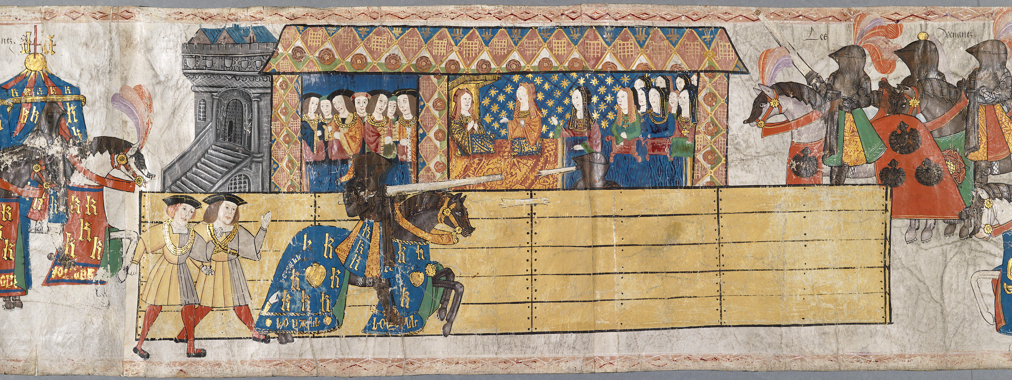 Detail showing Henry VIII tilting in front of Katherine of Aragon, courtesy College of Arms - Westminster tournament roll subst:OP